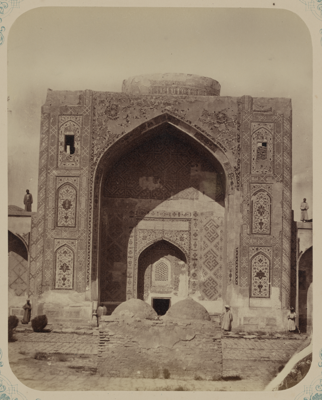 This photograph of the Nadir Divan-Begi Madrasah in Samarkand (Uzbekistan) is from the archeological part of Turkestan Album. The six-volume photographic survey was produced in 1871-72 under the patronage of General Konstantin P. von Kaufman, the first governor-general (1867-82) of Turkestan, as the Russian Empire’s Central Asian territories were called. The album devotes special attention to Samarkand’s Islamic architectural heritage. Located next to the Khodzha Akhrar shrine, this madrasah (religious school) was completed in 1631 by Nadir Divan-Begi, vizier of the Bukharan ruler Imam-Quli Khan. The madrasah was planned as a rectangular courtyard with a mosque at the far end from the entrance. This view shows the main facade of the mosque with an iwan (vaulted hall, walled on three sides, with one end open) arch. At the center of the iwan niche is a portal arch (peshtak) flanked by faience ceramics and a lattice window above. The peshtak is framed by botanical patterns, while the area above the pointed arch is covered with faience work and a horizontal inscription band. The back wall of the iwan niche displays geometric tile patterns including block Kufic letters that form words from the Kalima, the basis of the Shahada, or Islamic declaration of faith. The main facade rises from a marble base in a remarkable display of faience mosaics and geometric patterns. On either side is a one-story cloister arcade. Architectural decorations and ornaments; Islamic architecture; Mosques; Photographic surveys